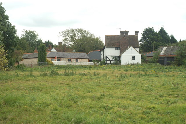 View Towards Briar Cottage, East Clandon, Surrey Briar cottage, and the outbuildings to the left of picture, have just been sold.